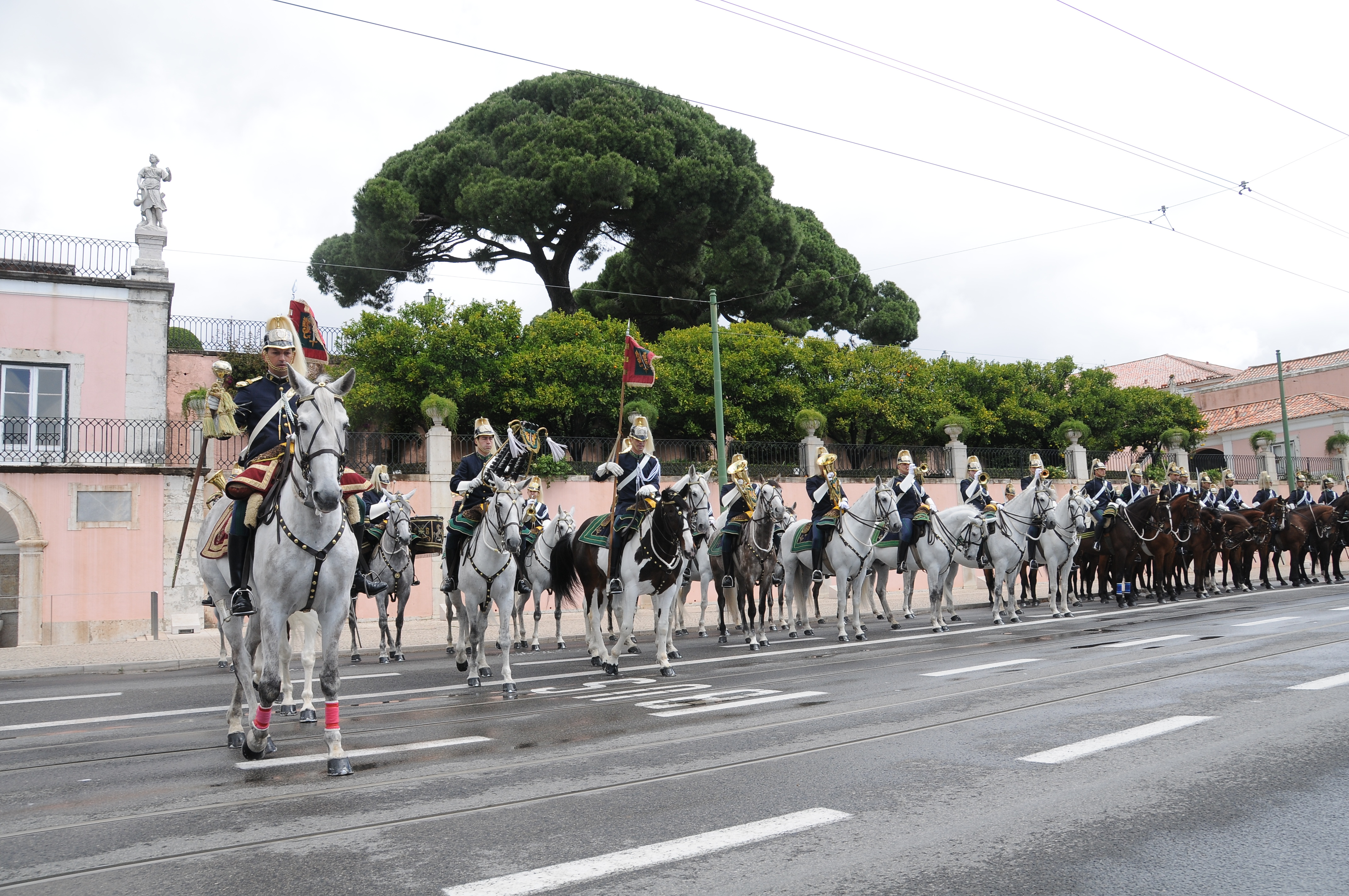 Changing of the Guard in Palácio Nacional de Belém, Lisbon, Portugal